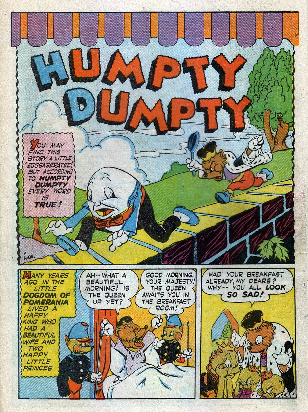 Punch and Judy Comics Volume 1, #1, Page 30 1944